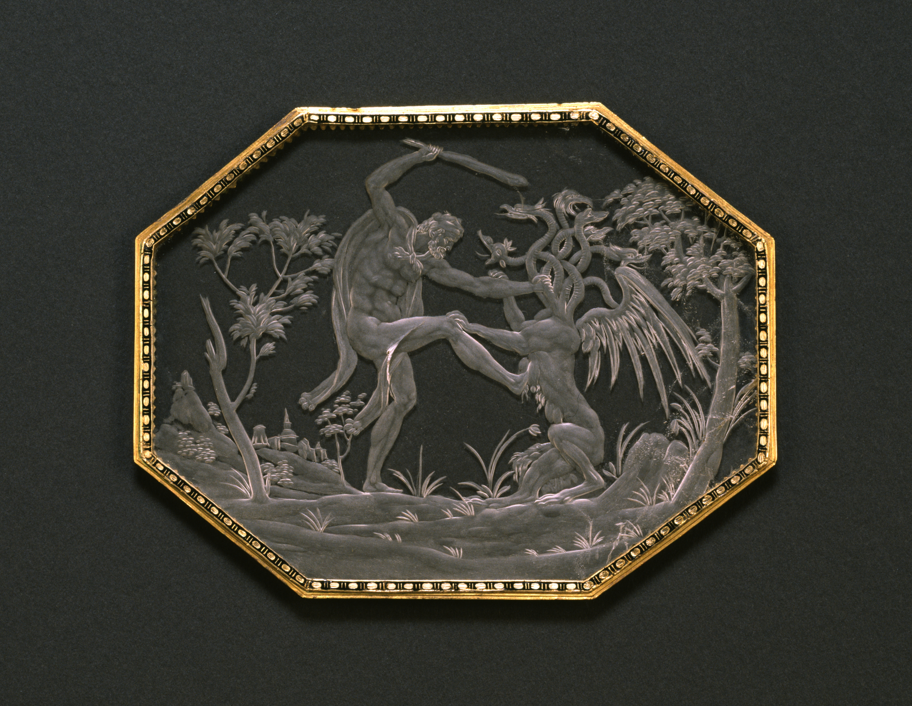 This engraved plaque, along with Walters 41.71, show scenes from the life of the mythological hero Hercules and were initially set into a sumptuous, gilded casket that belonged to the ducal Gonzaga family of Mantua. Hercules was famous for his strength and virtue, and princes often surrounded themselves with his image as an ideal for (and an idealized image of) themselves. This scene is from the Twelve Labors of Hercules, tasks given to him by King Eurystheus, who thought they were impossible to accomplish, including killing a many-headed hydra (dragon). At some point the casket was taken apart; eight related plaques are preserved. Hercules's powerful musculature reveals Fontana's study of ancient sculpture. His reputation as a fine engraver of rock crystal was widespread. In 1585, the duke of Savoy commissioned from him a casket decorated with plaques similar to this for Archduchess Isabella on the occasion of her marriage.